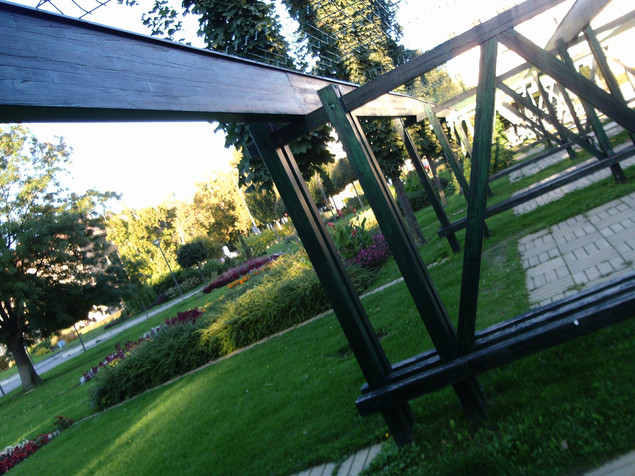 Dunaujvaros, Hungary